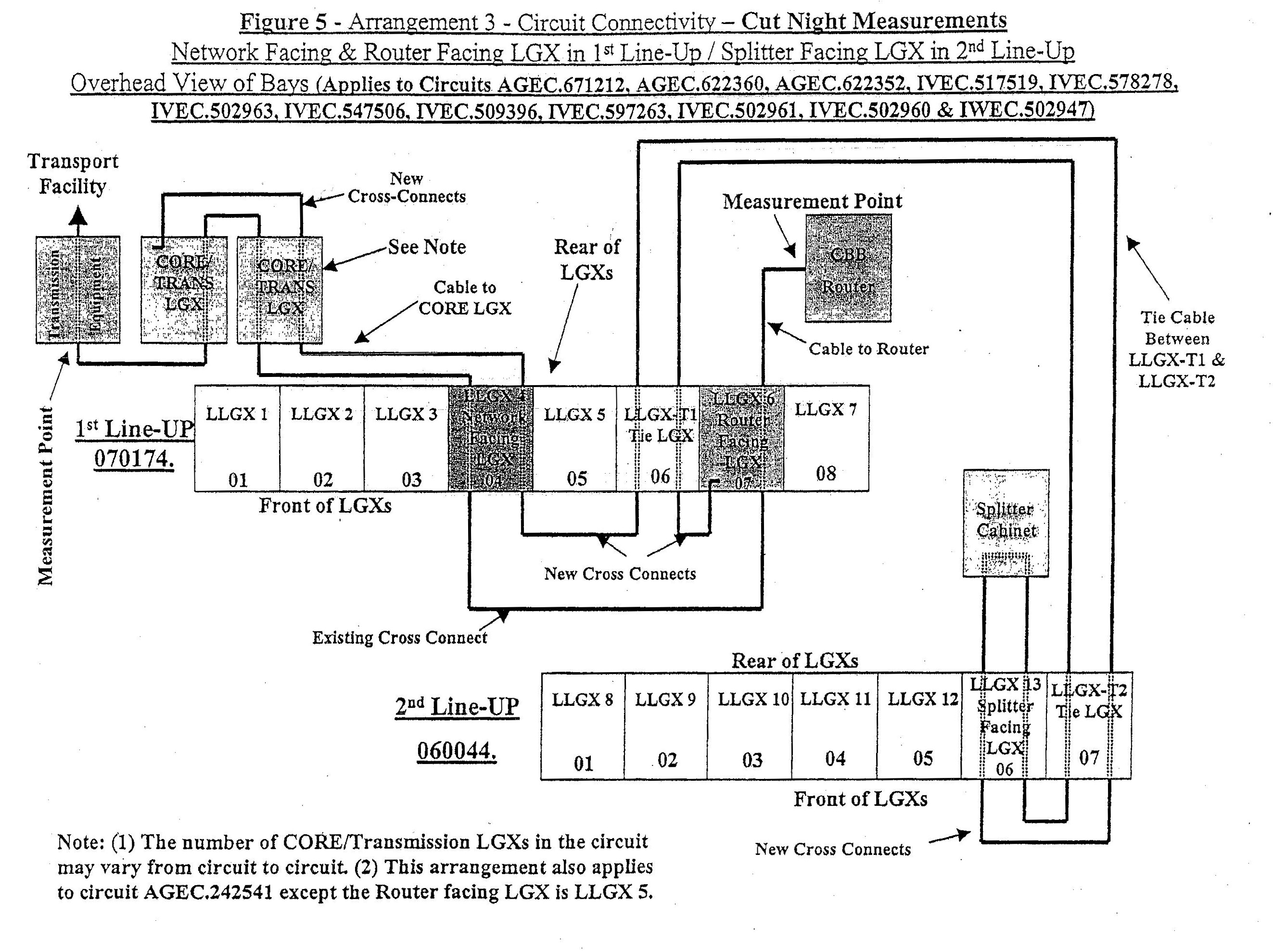 Cleaned,cropped and rotated version of File:SER klein exhibits.djvu page 9